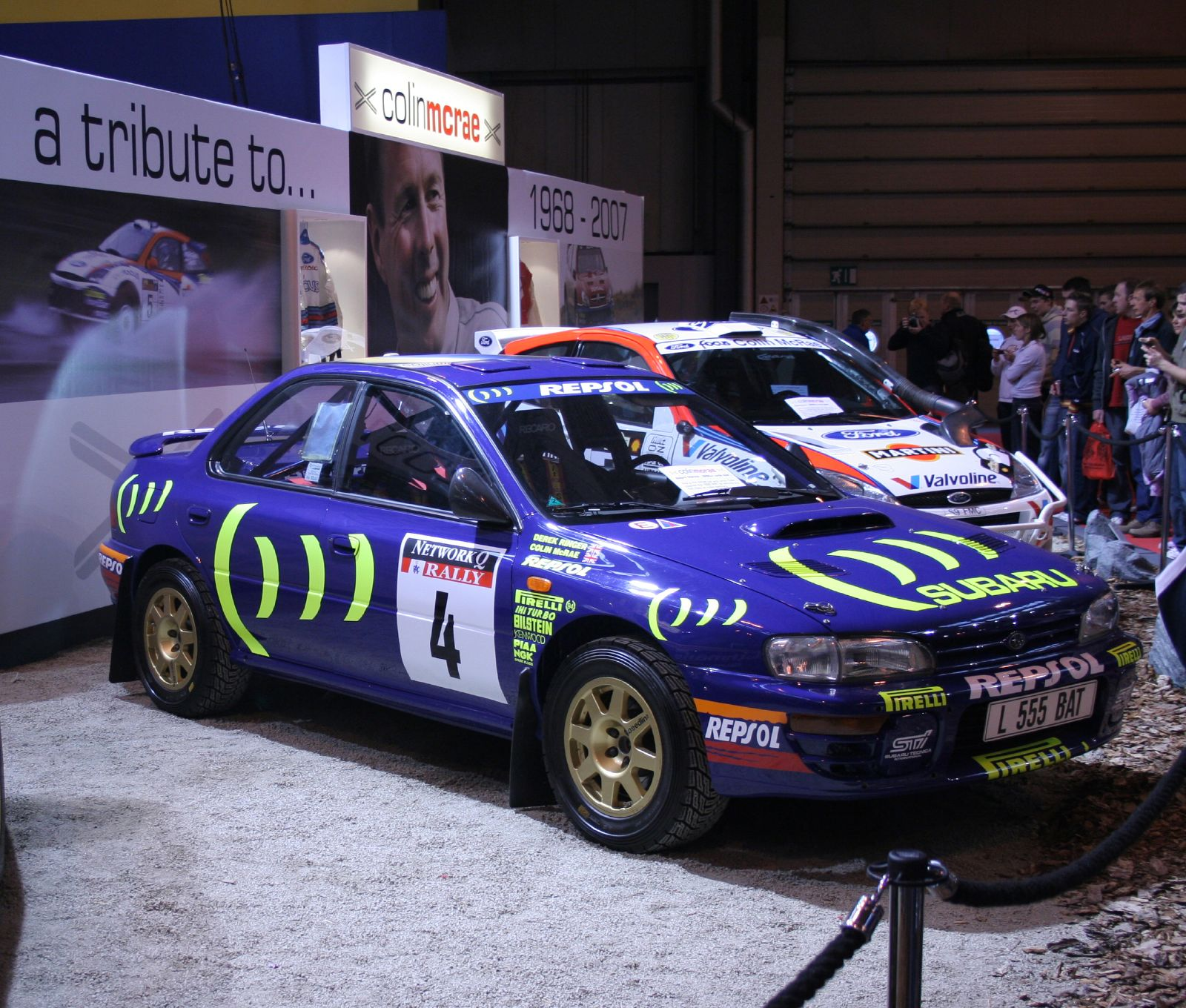 Colin McRae's Subaru Impreza 555 from the 1995 season.